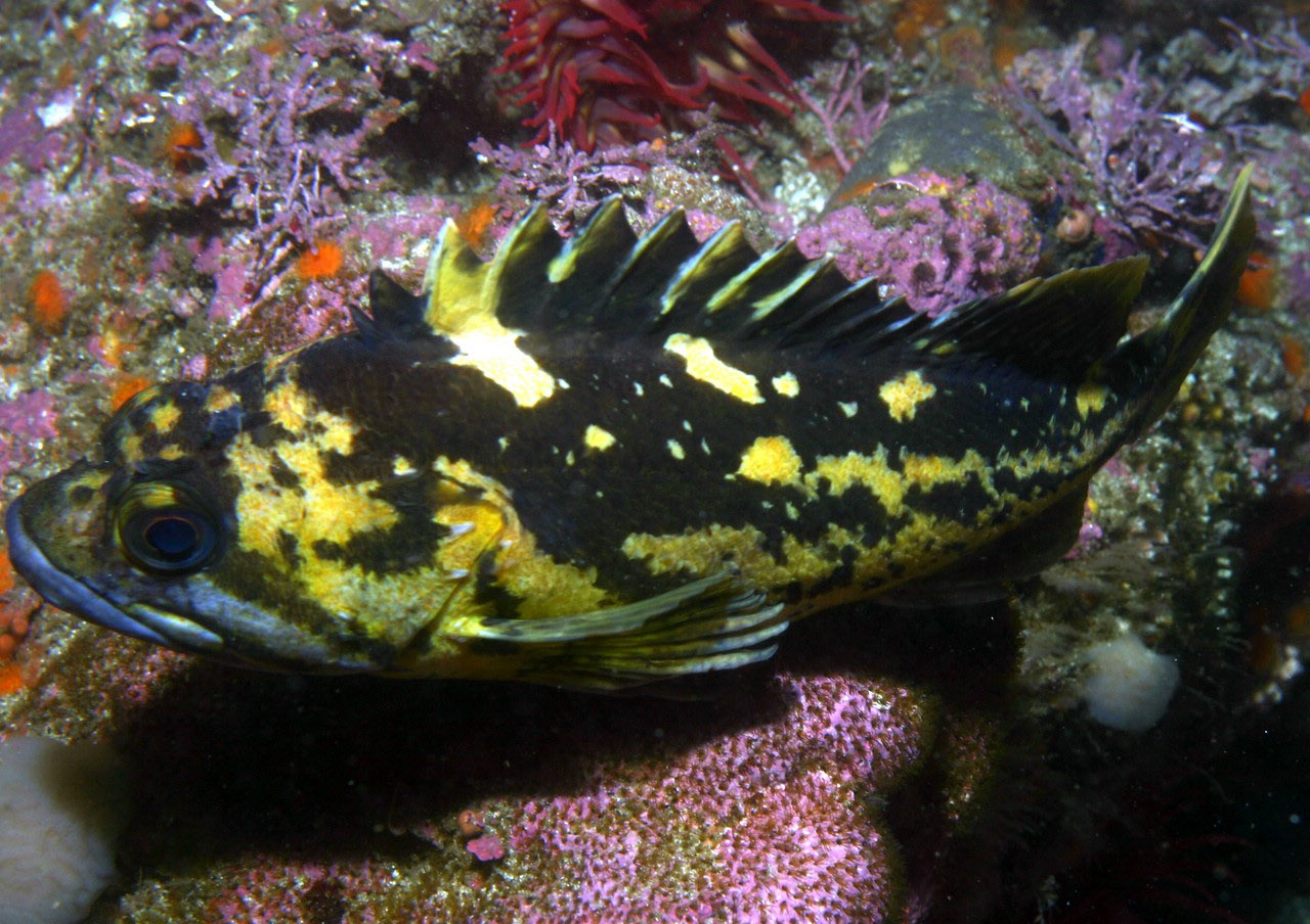 Black and yellow rockfish (Sebastes chrysomelas) cruising by at Partington Point